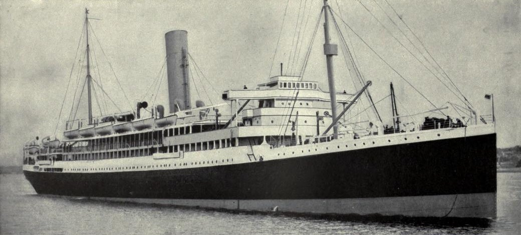 The steamer Avon was built in 1906 for Royal Mail SP Co. Converted as troopship in 1914, then as armed merchant cruiser 1915 and renamed HMS Avoca, return to owners and renamed Avon in 1919.